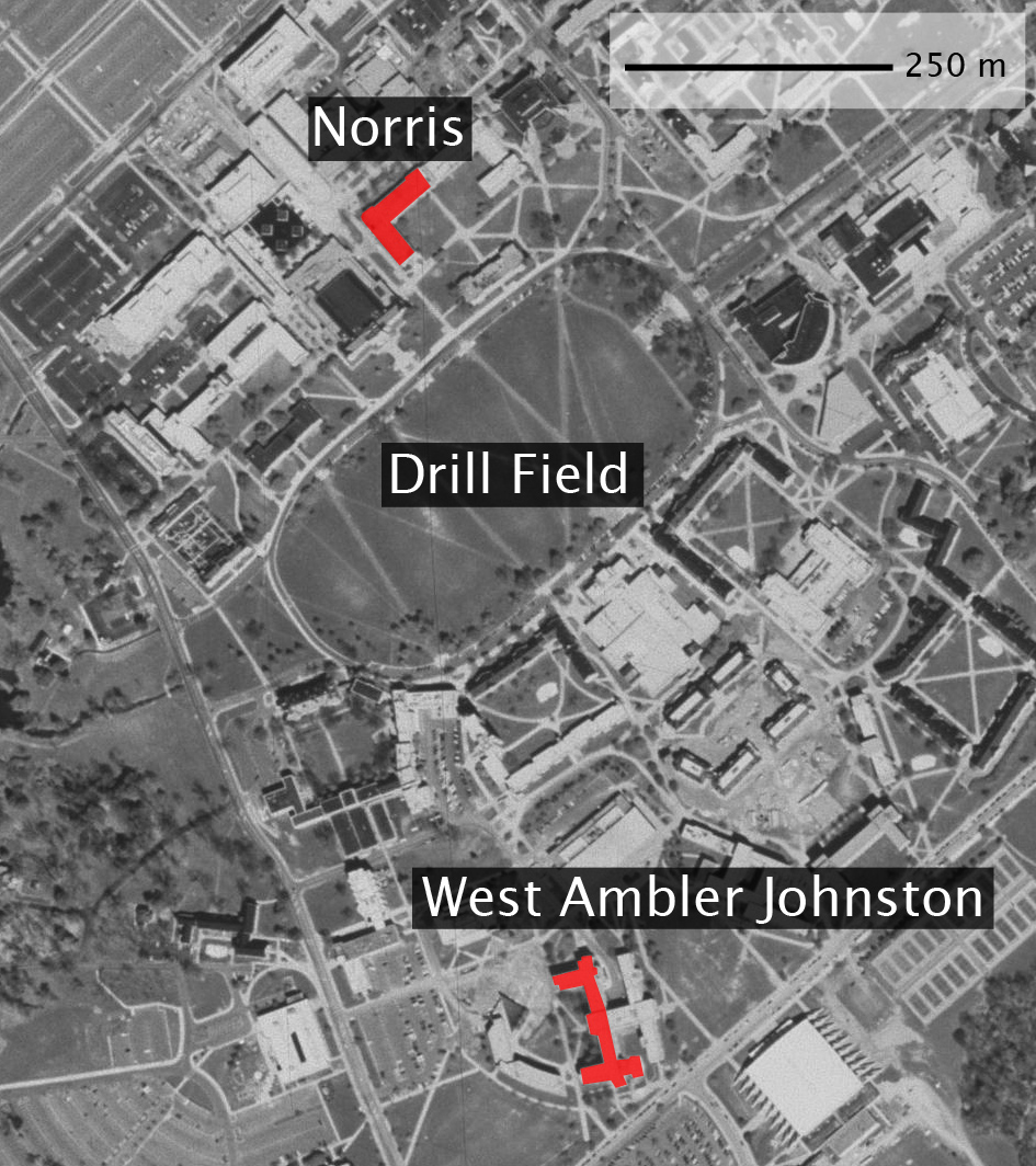 Map of Virginia tech with Norris and West Ambler Johnston Hall highlighted. Basemap from TerraServer (USGS).